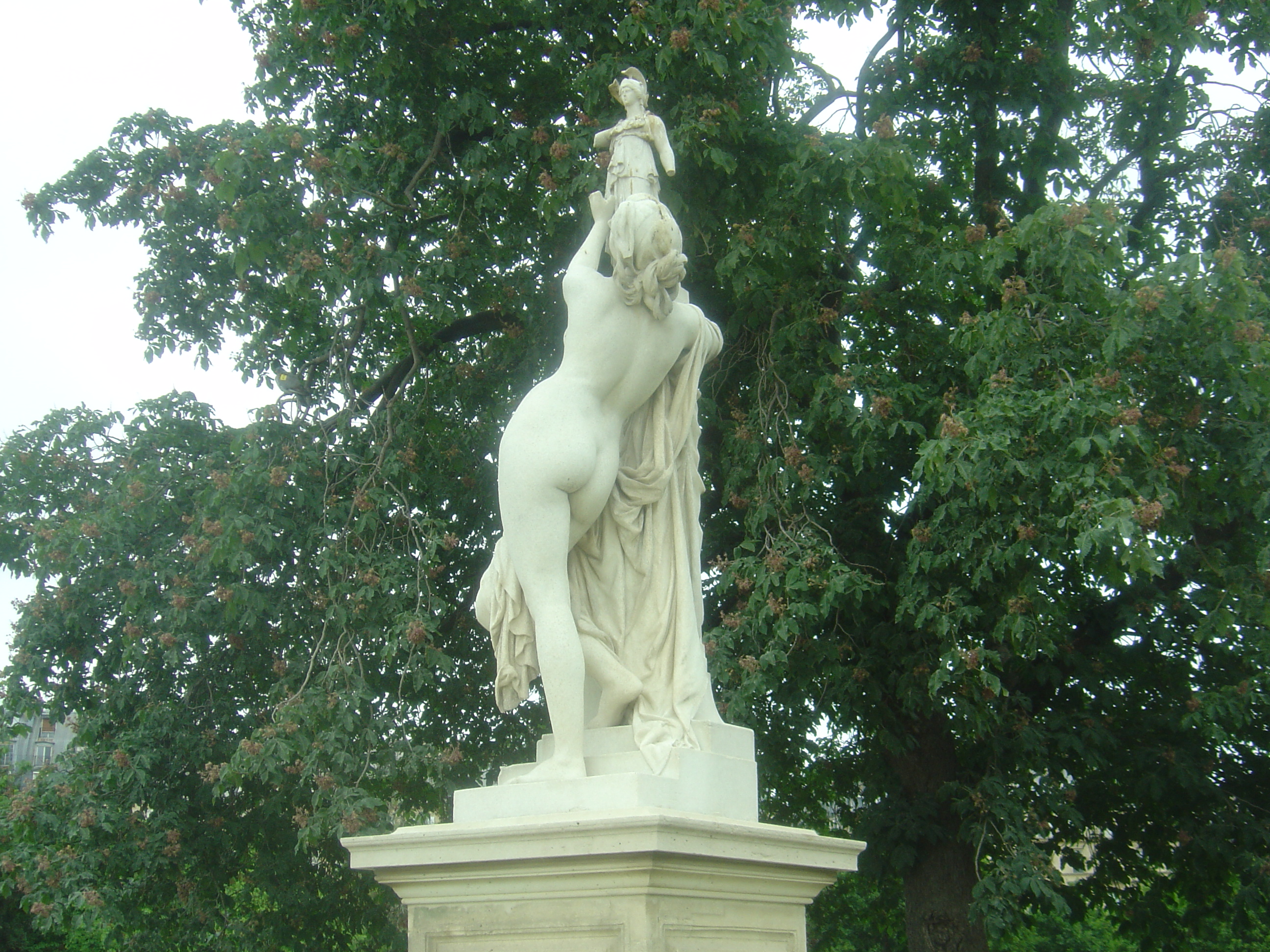 Cassandre se met sous la protection de Pallas by Aimé Millet